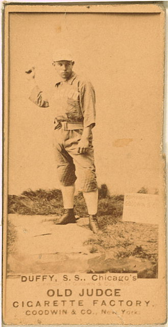 Hugh Duffy, Chicago White Stockings, baseball card portrait.